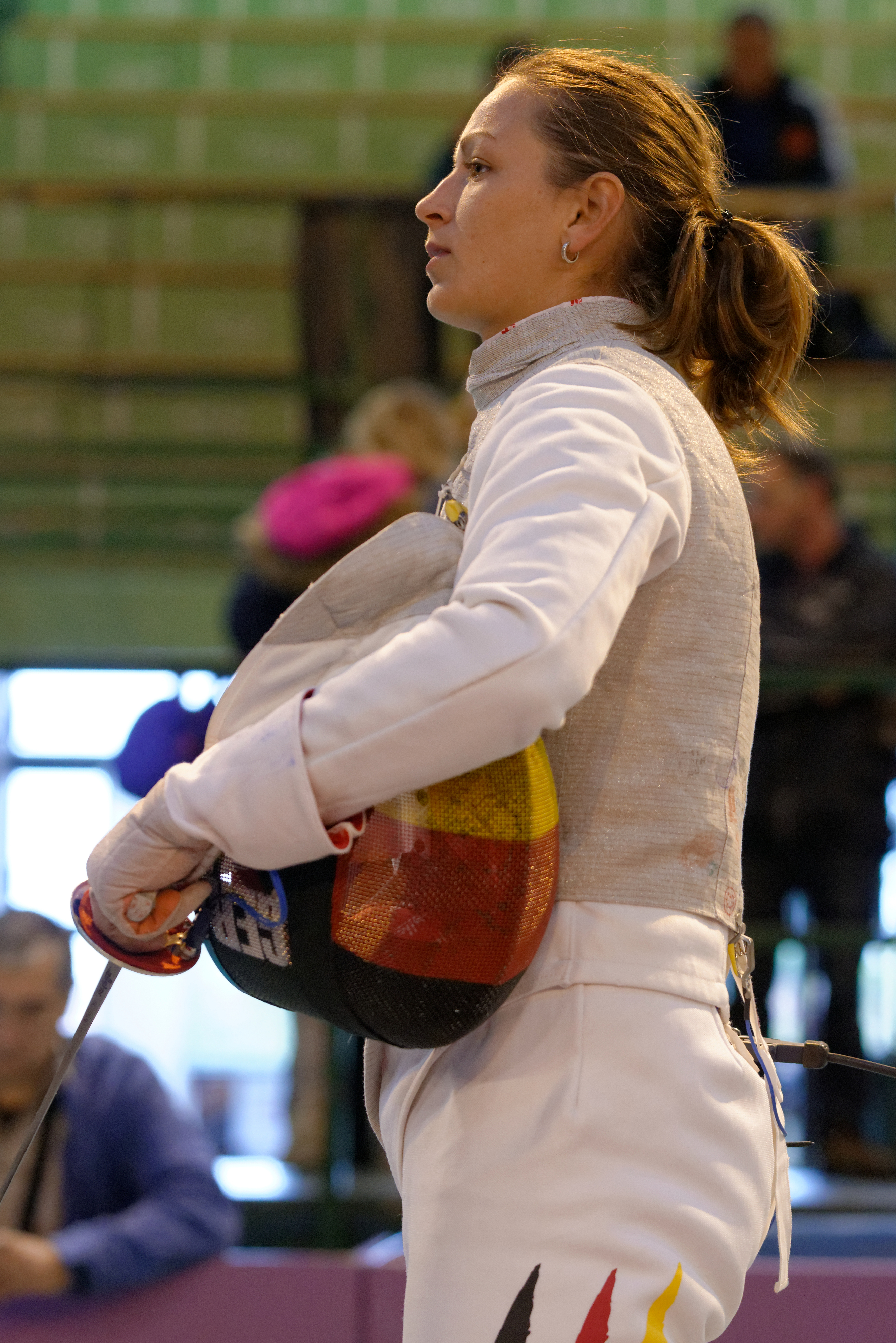 Germany's Sandra Bingenheimer at the Saint-Maur Women's Foil World Cup.